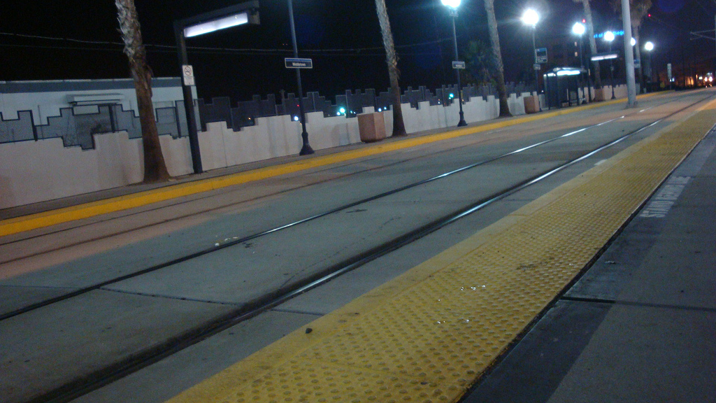 Middletown Trolley Station